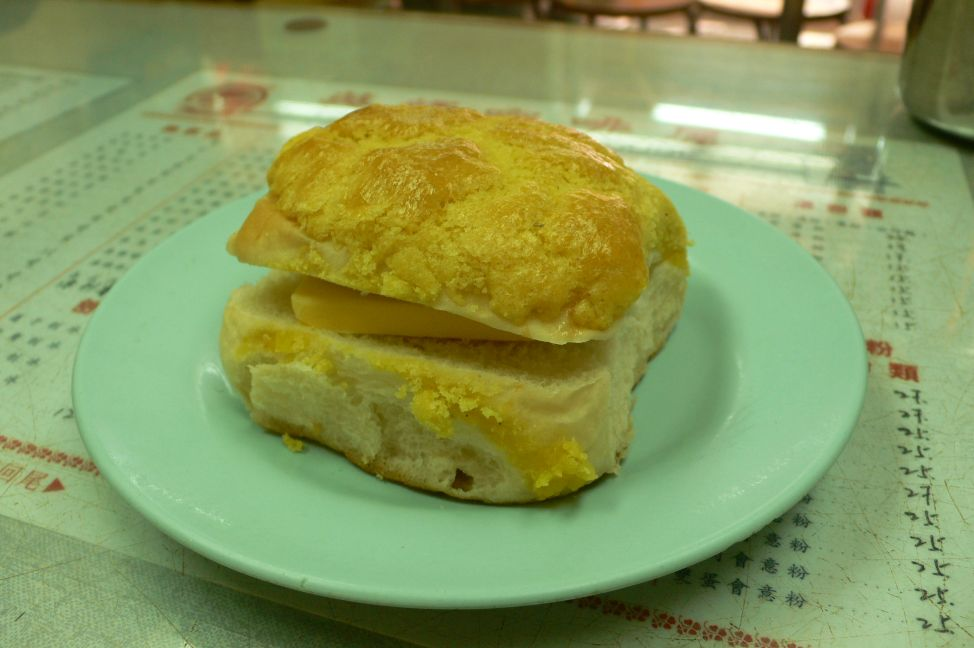 A Pineapple Bun with Butter